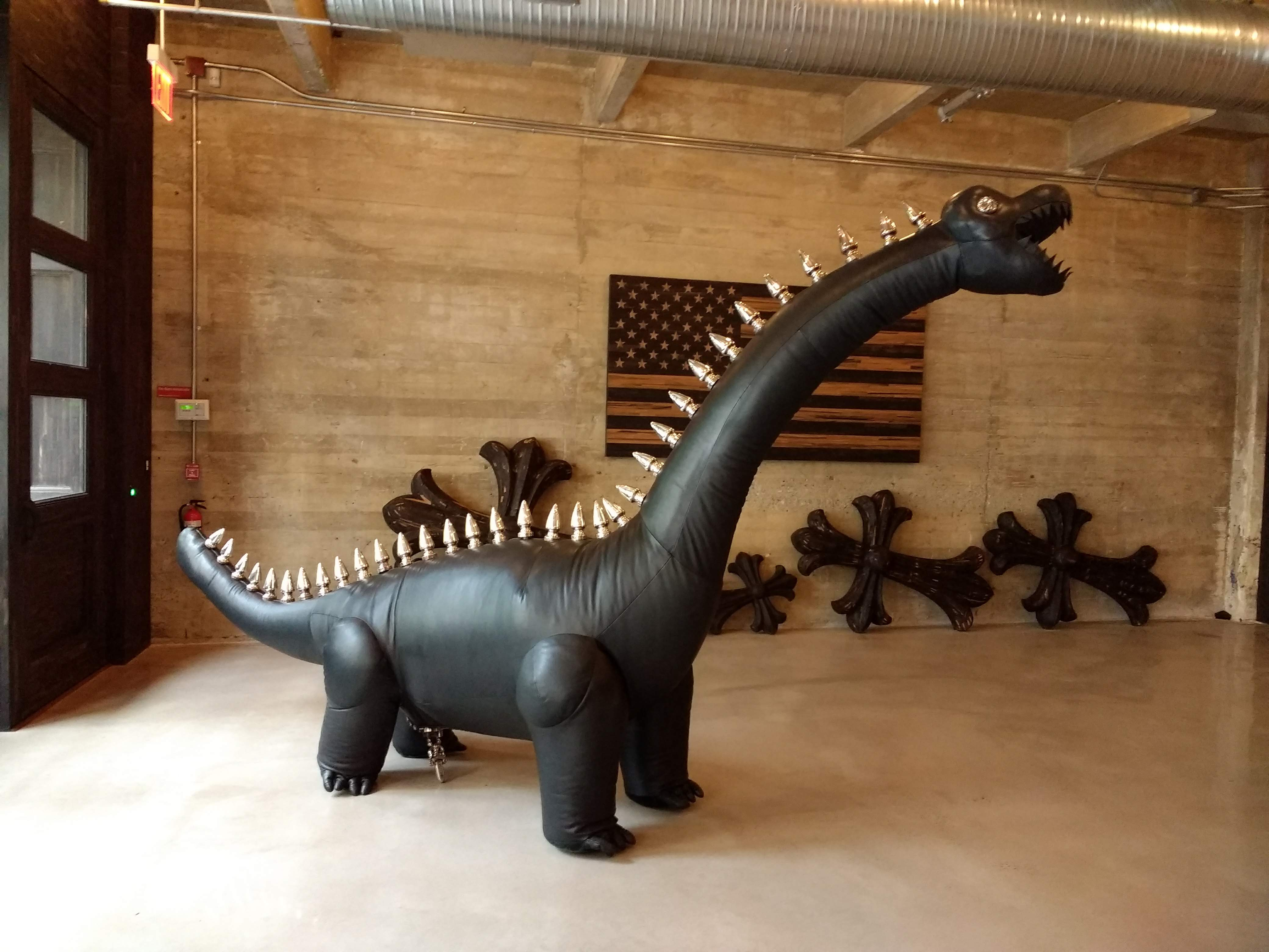 The Chrome Hearts Store in Greenwich Vilage New York City.